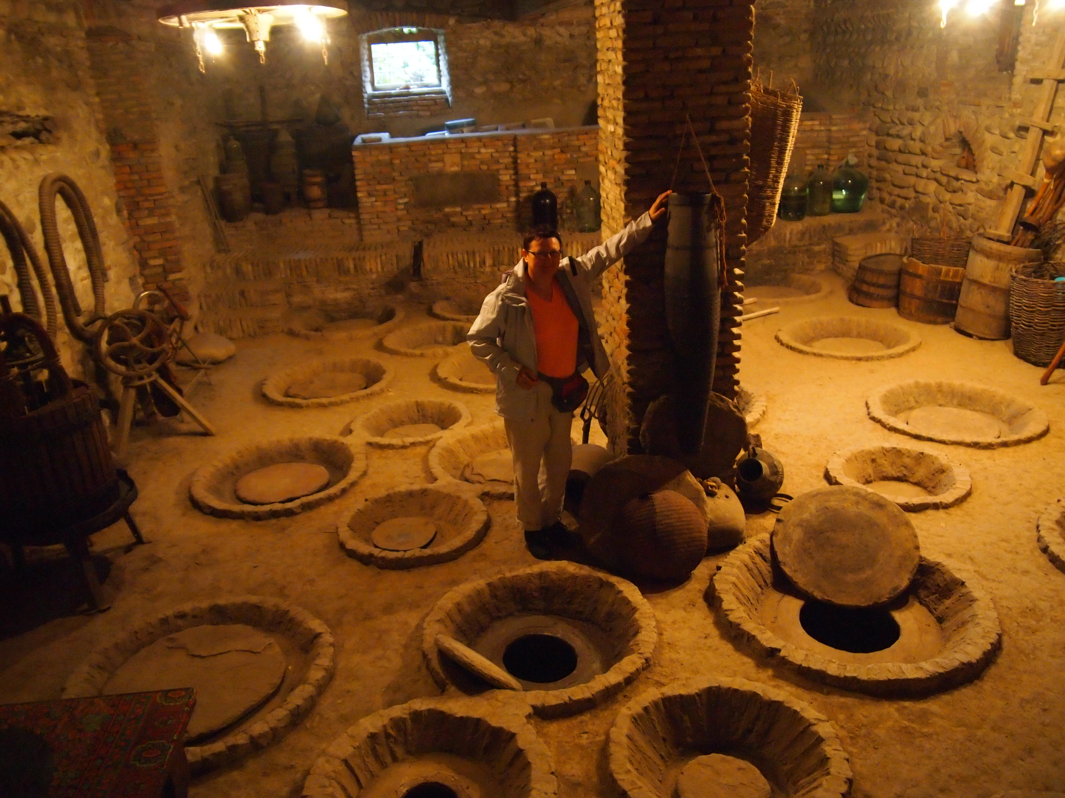 Georgian traditional kvevri jugs buried in a winery in Kakheti.